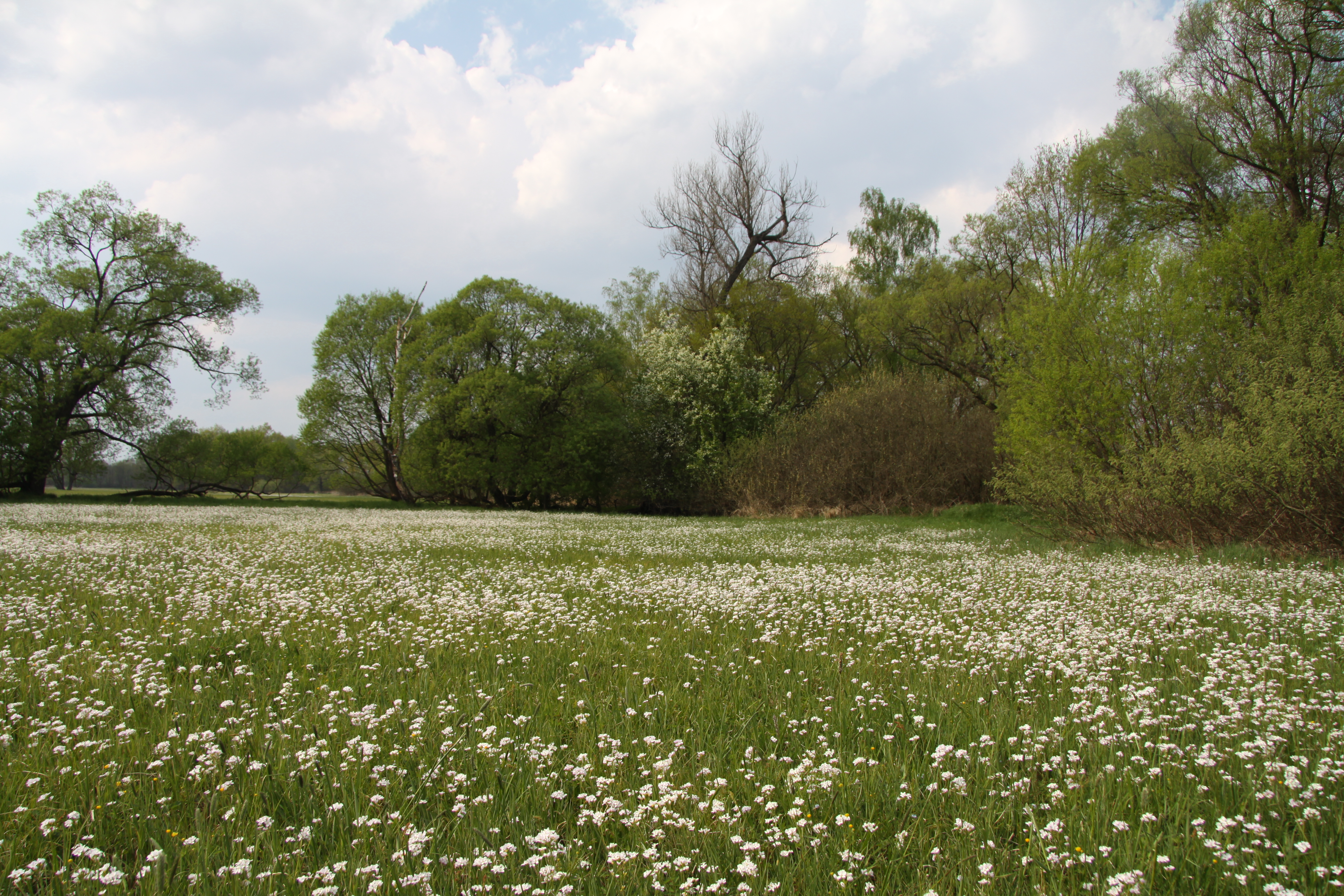 Natural reserve Mokřiny u Vomáčků near Zliv, České Budějovice District, Czech Republic - Google Maps - Google Earth